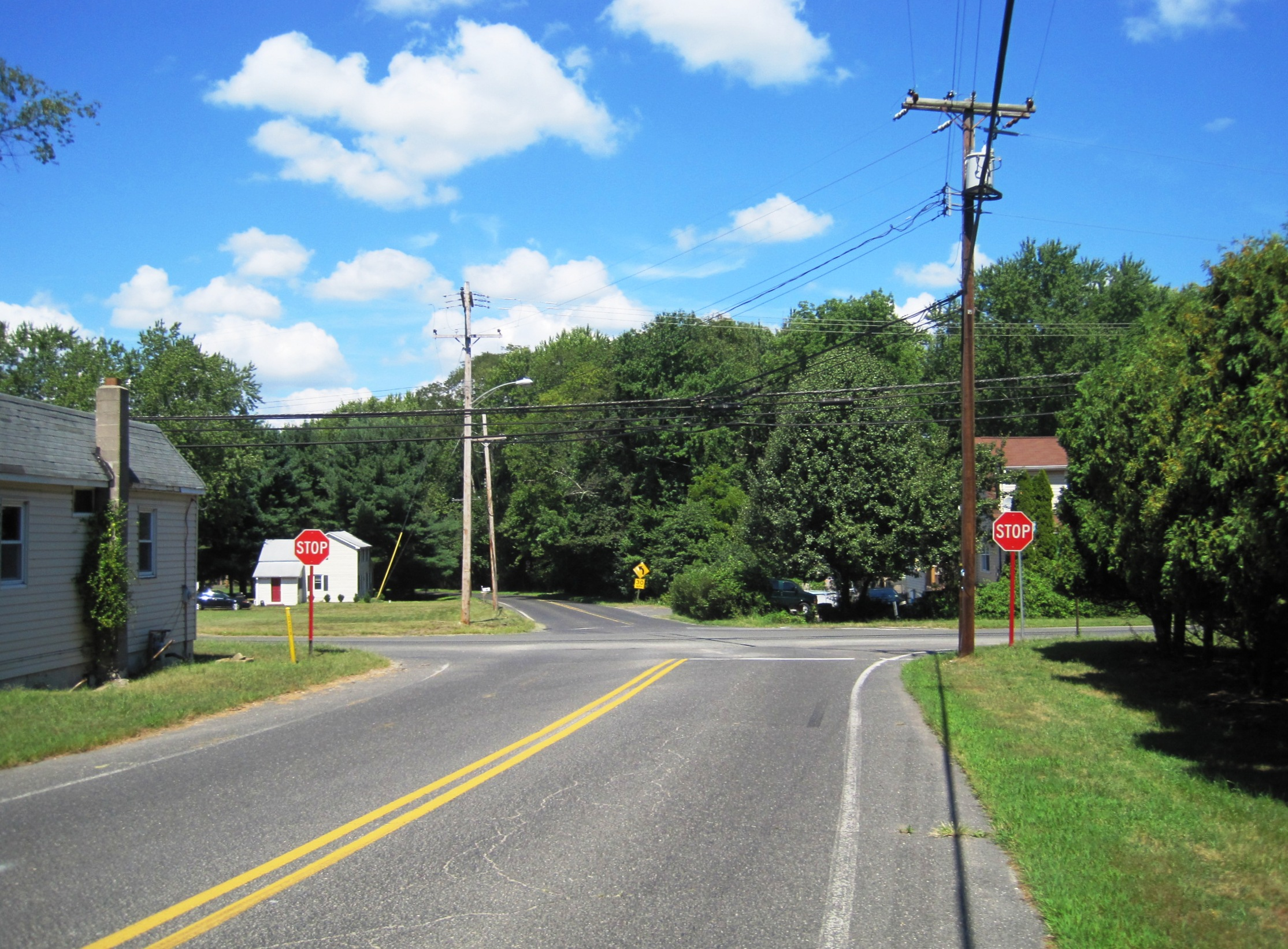 Photo of West Farms, New Jersey, an unincorporated community within Howell Township. Photo taken along westbound Casino Drive at West Farms Road.